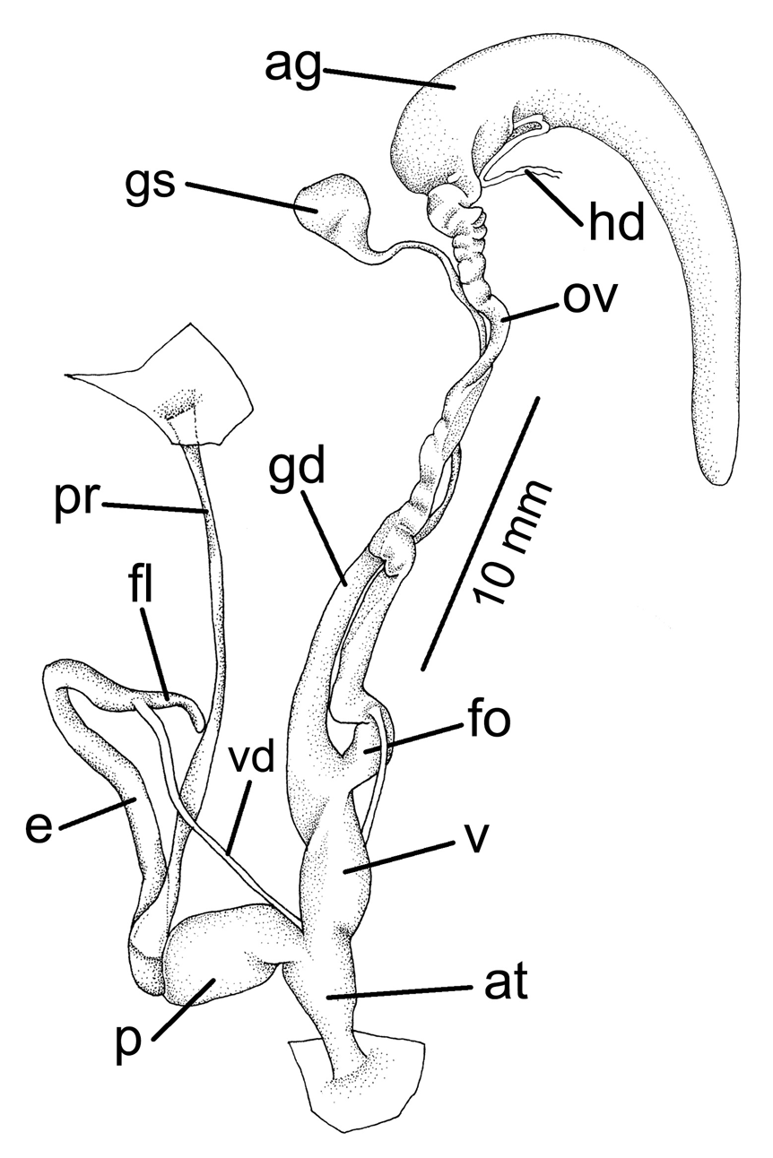 Drawing of a reproductive system of Amphidromus contrarius from Timor. Scale bar is 10 mm.